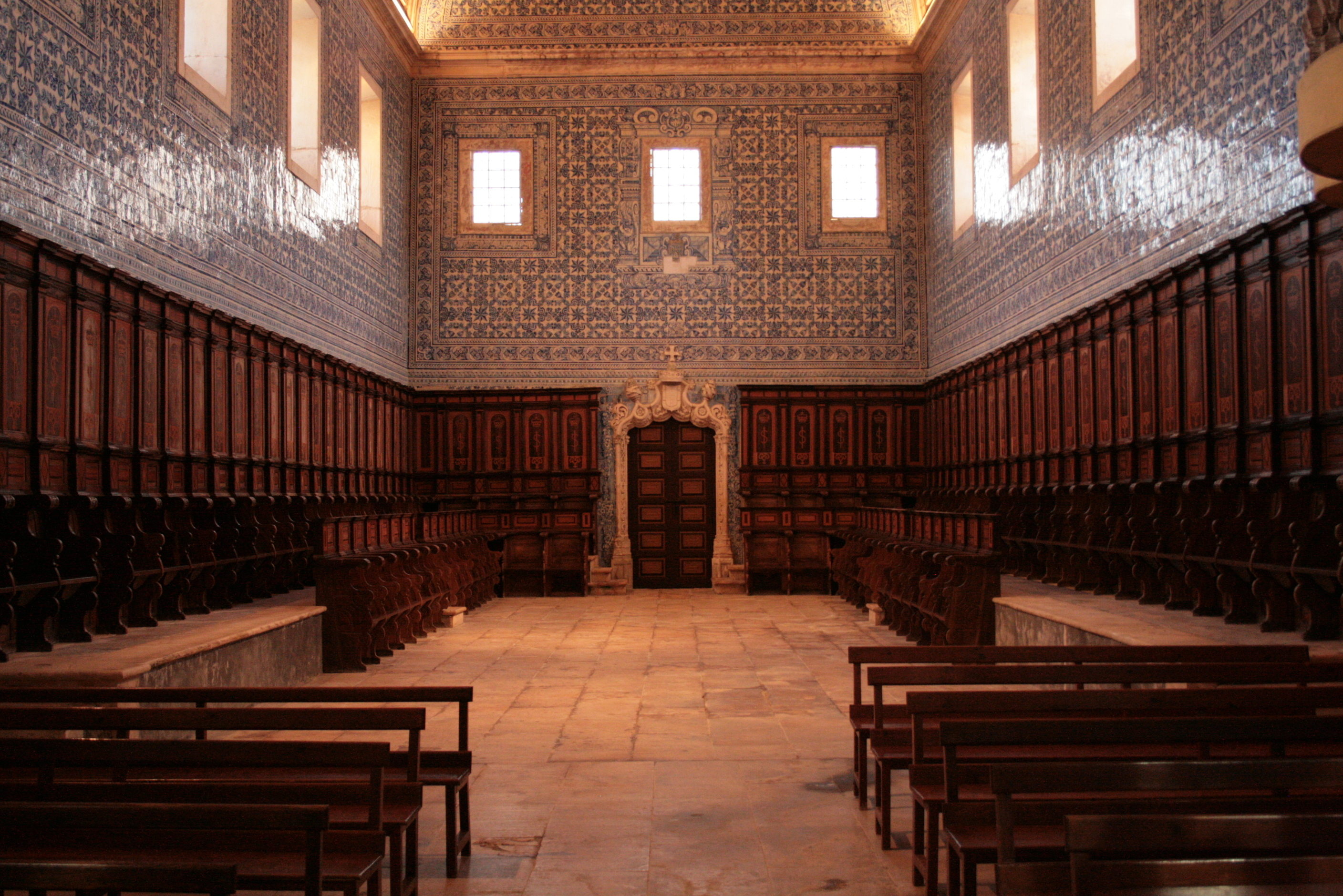 Coro da Igreja do Mosteiro de Santa Maria de Cós